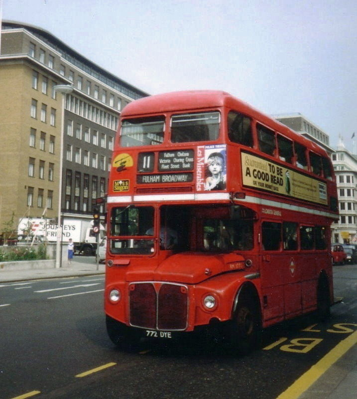 Routemaster RM1772 on June 1993 in London